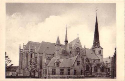 Old postcard from the Sint Martinuschurch in Kontich from around 1900